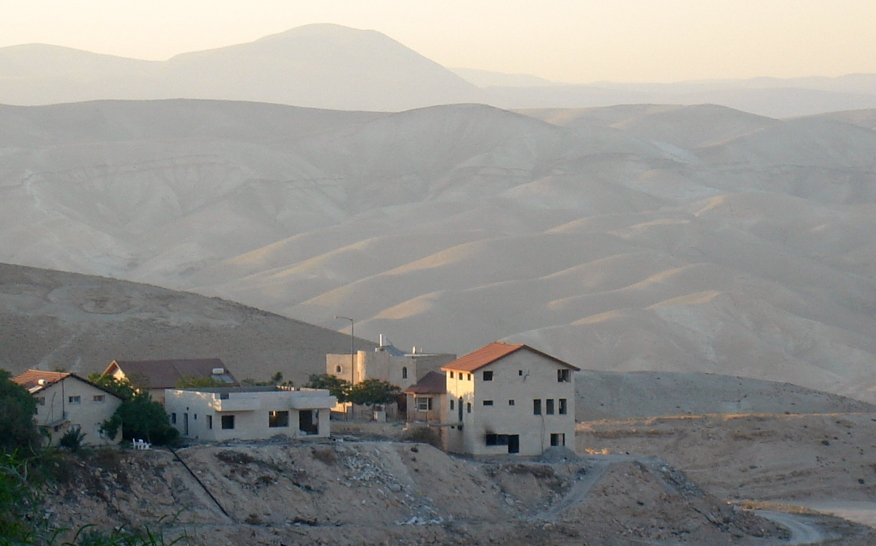 Photo taken of Mitzpe Yericho in the Judea Desert in March 2008.